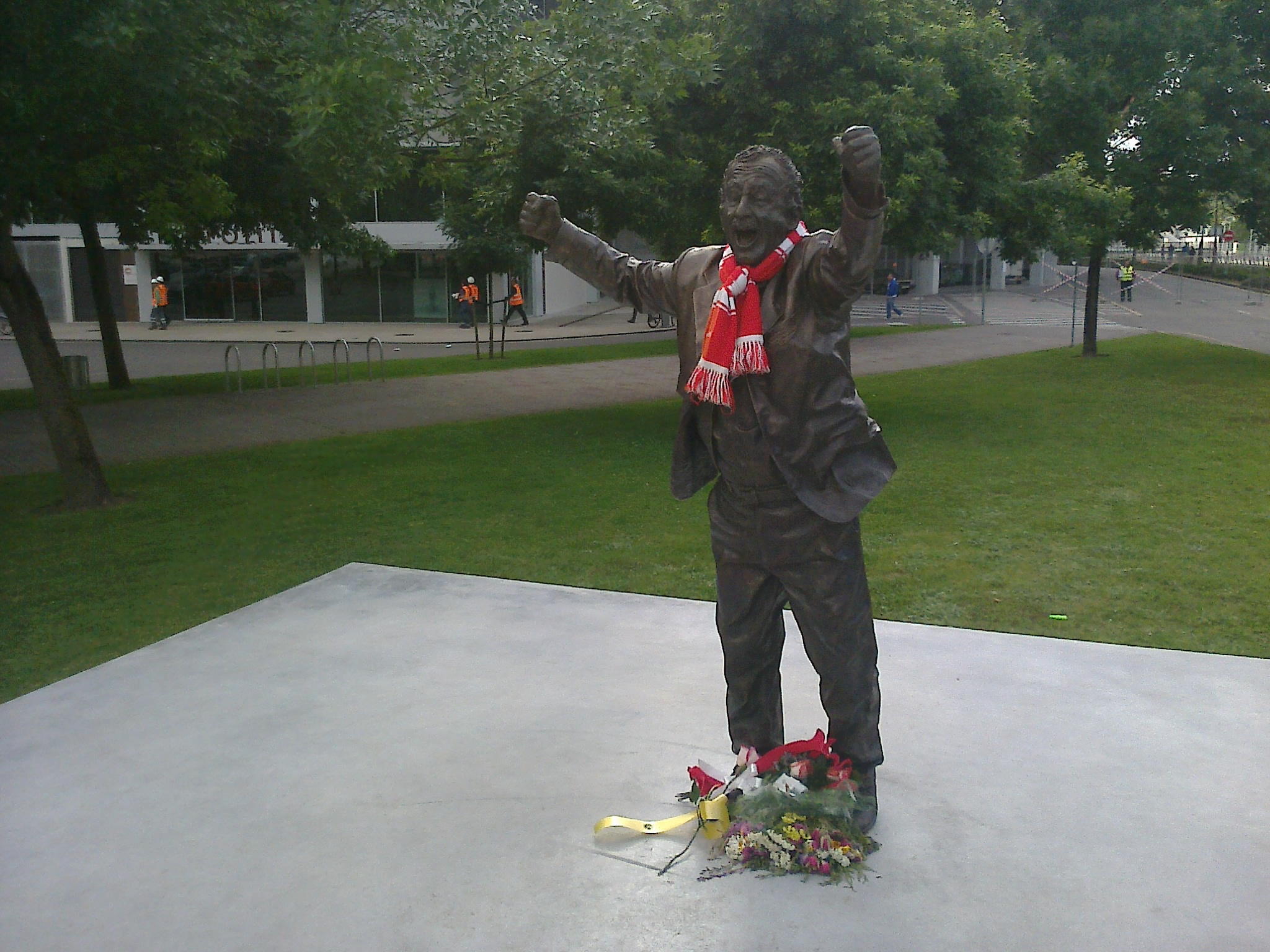 Statue of Manolo Preciado near Estadio El Molinón, in Gijón